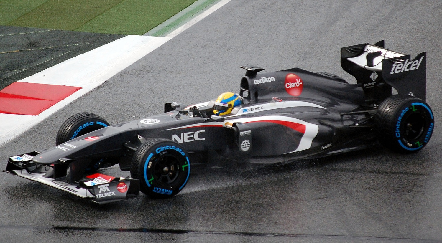 Sauber C32